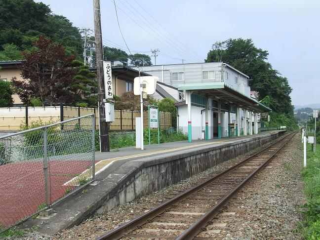 Fudonosawa Station